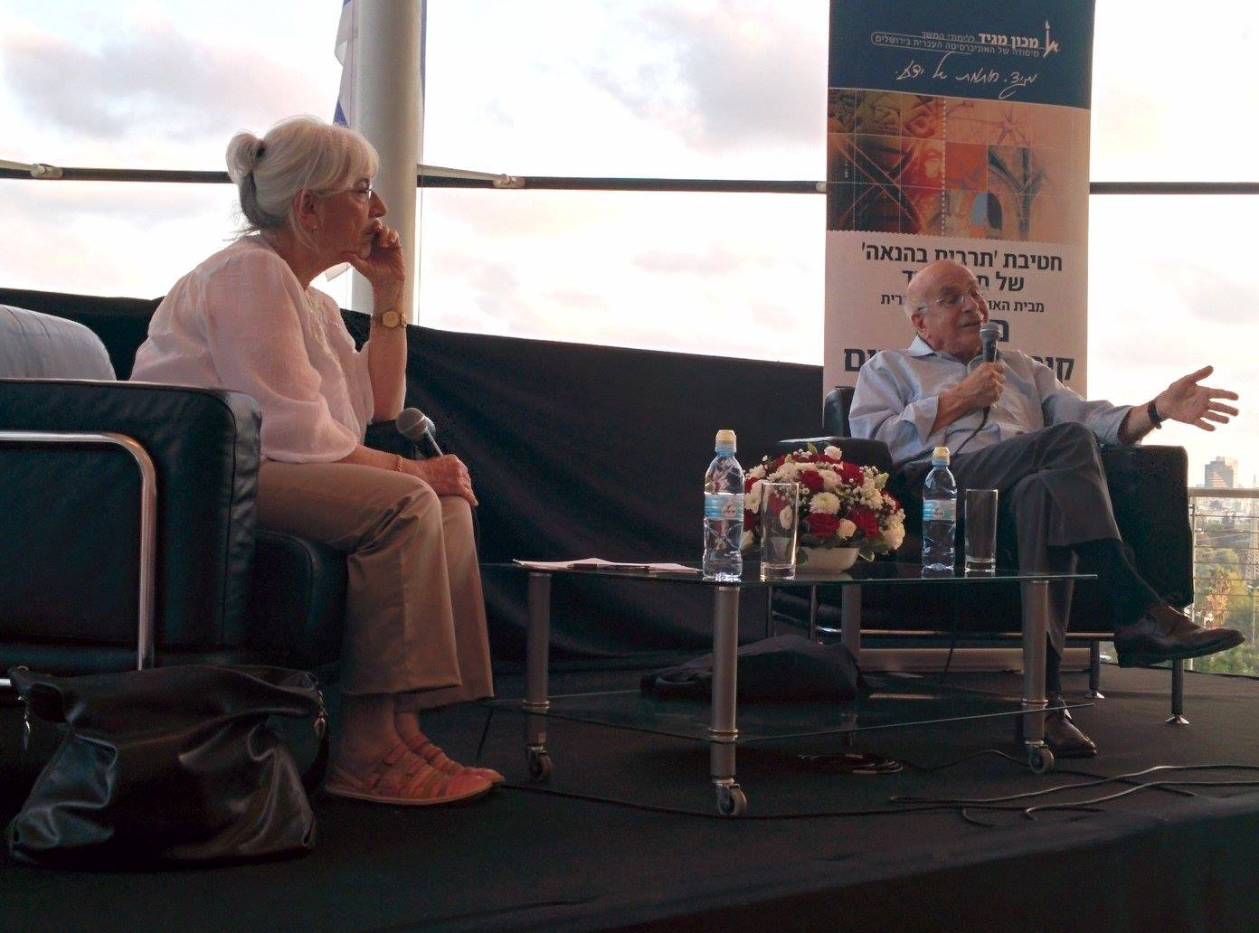 Prof. Daniel Kahneman and Prof. Maya Bar Hillel talking about Kahneman's research